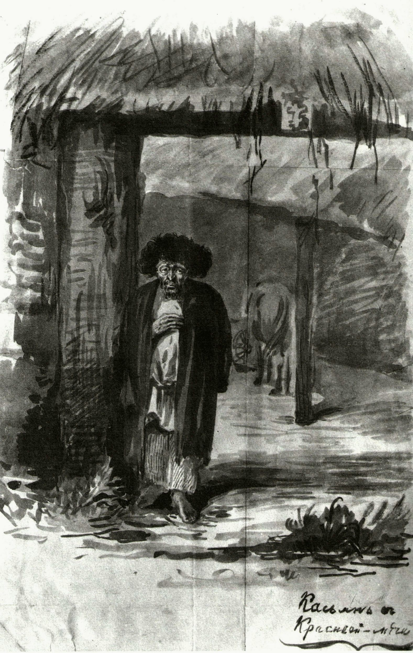 The portrait of Kassyan, the protagonist of the short story Kassyan of Fair Springs by Ivan Turgenev (from the collection A Sportsman's Sketches). “Picture to yourself a little creature of fifty years old, with a little round wrinkled face, a sharp nose, little, scarcely visible, brown eyes, and thick curly black hair, which stood out on his tiny head like the cap on the top of a mushroom. His whole person was excessively thin and weakly, and it is absolutely impossible to translate into words the extraordinary strangeness of his expression.” —Ivan Turgenev. Kassyan of Fair Springs (translation by Constance Garnett).